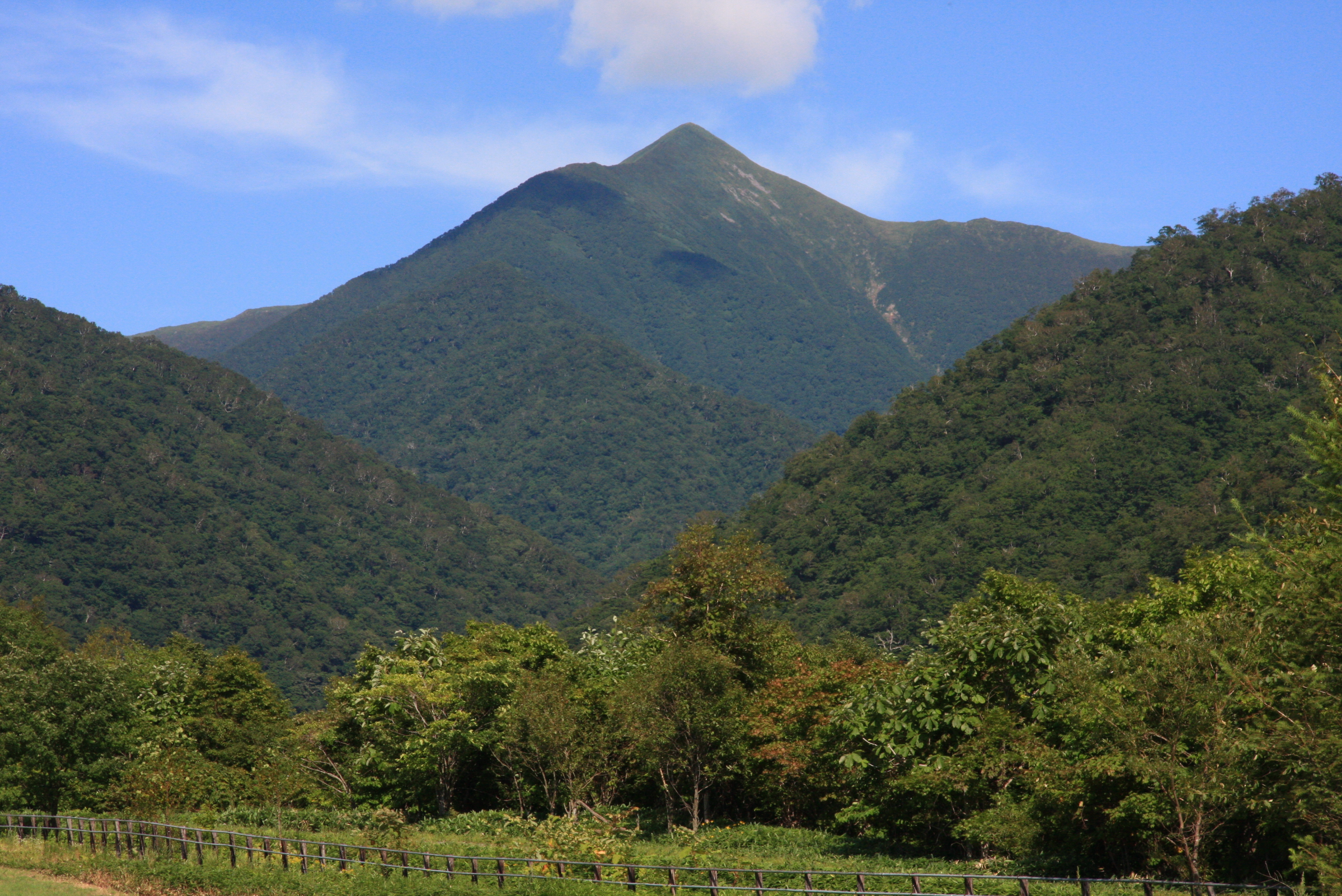 Mount Rakko (Rakko-dake) seen from the WSW in the Hidaka Mountains, Japan. Taken from the Menashunbetsu Forest Road.